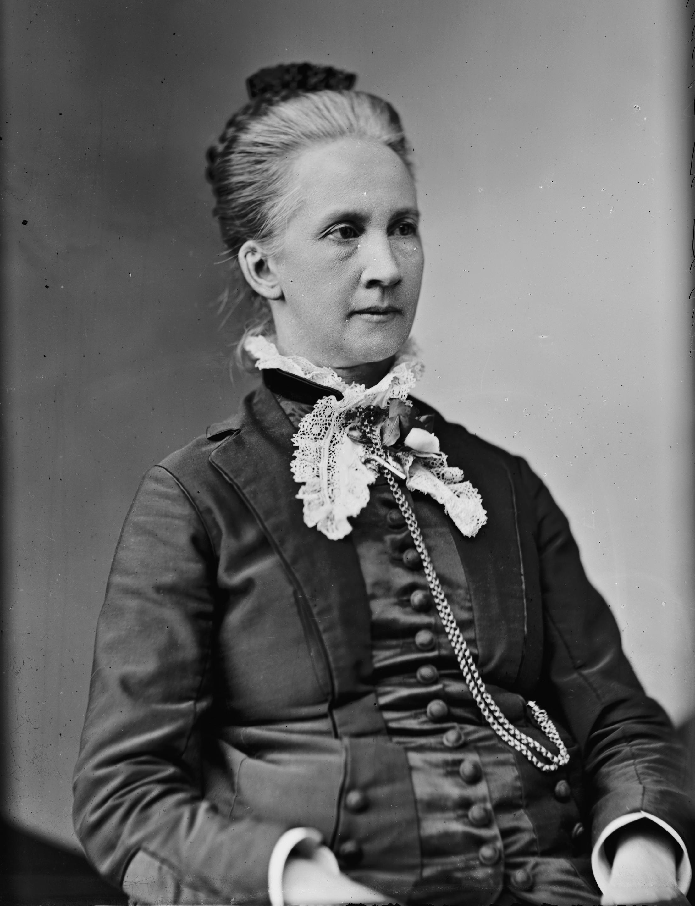 Belva Ann Lockwood. Library of Congress description: "Lockwood, Belva Lawyer - D.C. (Famous Lawyer and bicycle rider)".